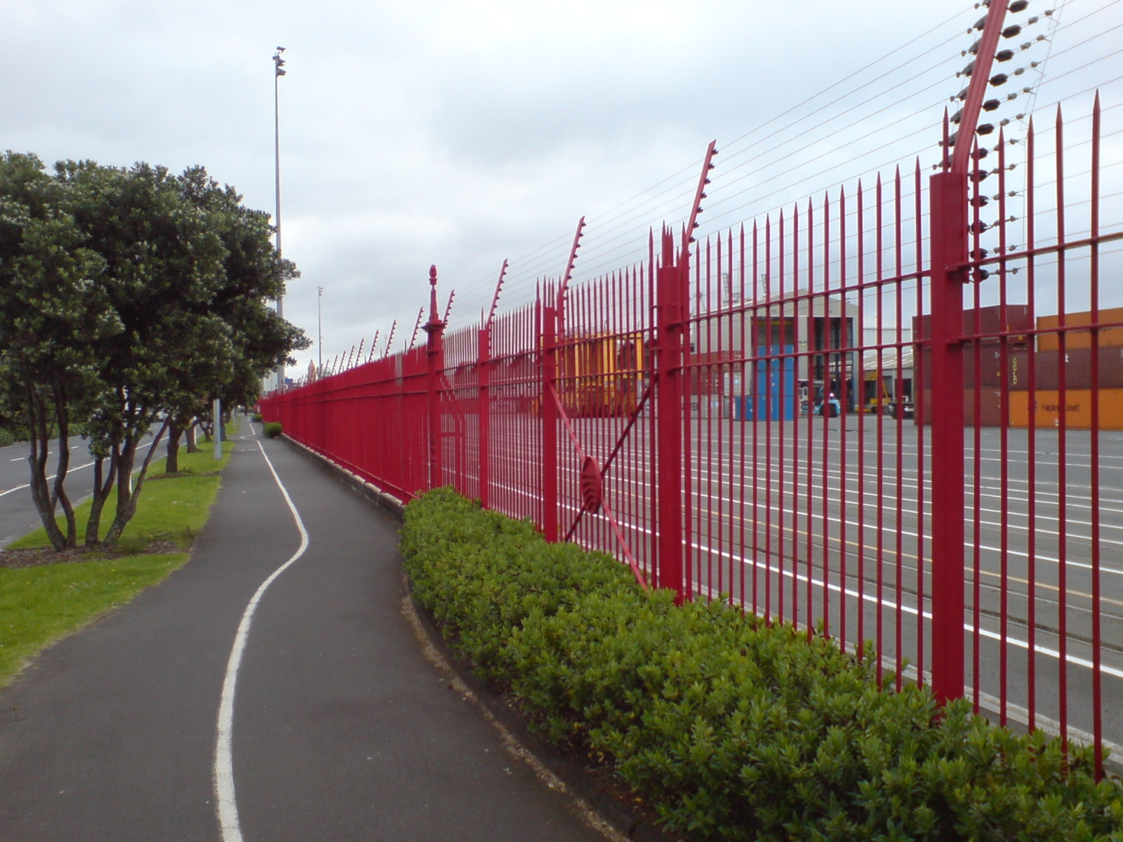 The red fence along the southern border (Quay Street) of the Ports of Auckland area in Auckland City, New Zealand. Note the old red Auckland Harbour Board fence with the later addition of the electric fence above (customs zone / container terminal).